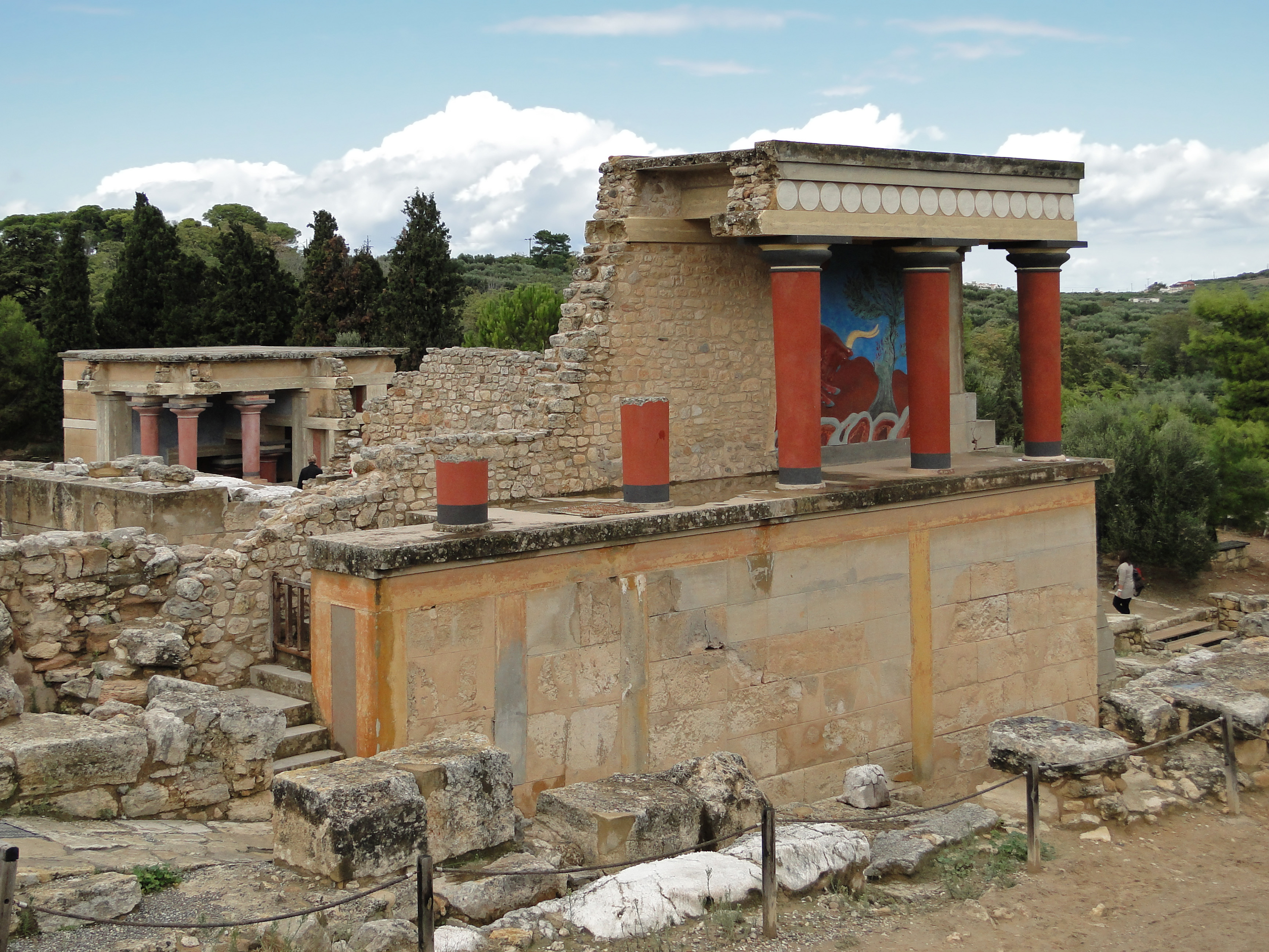 The North Portico in Knossos, Crete, Greece